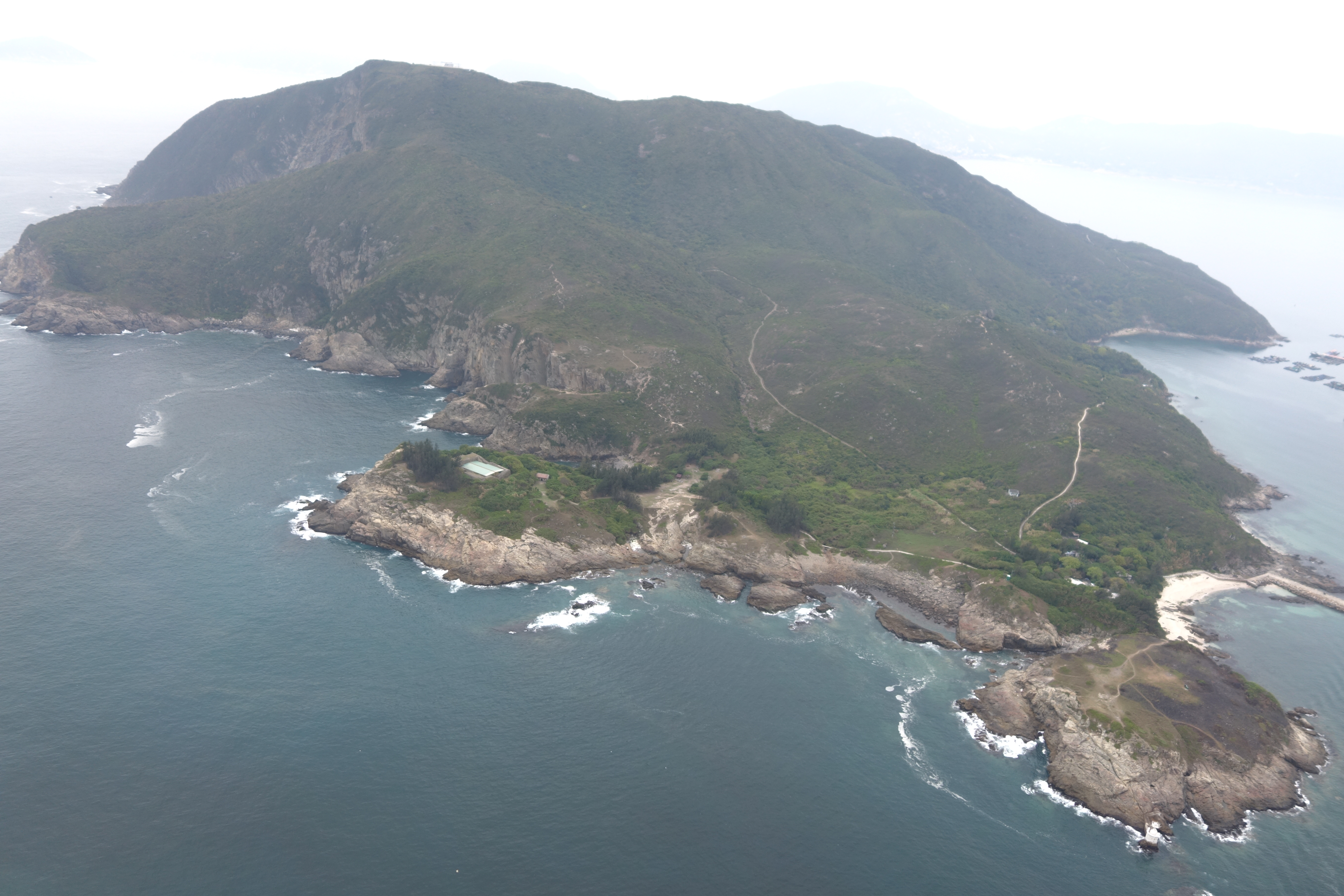 Aerial view of Tung Lung Chau from Northeast, Tung Lung Fort could be seen in the middle of the photo